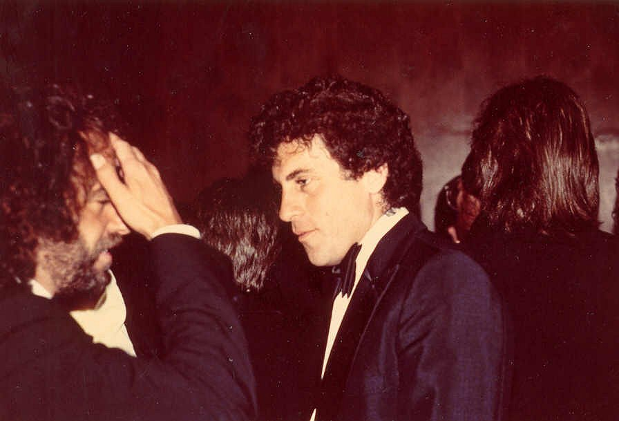 Paul Michael Glaser at the premiere of Sylvester Stallone's movie F.I.S.T., April 1978 - Permission granted to copy, publish, broadcast or post but please credit "photo by Alan Light" if you can